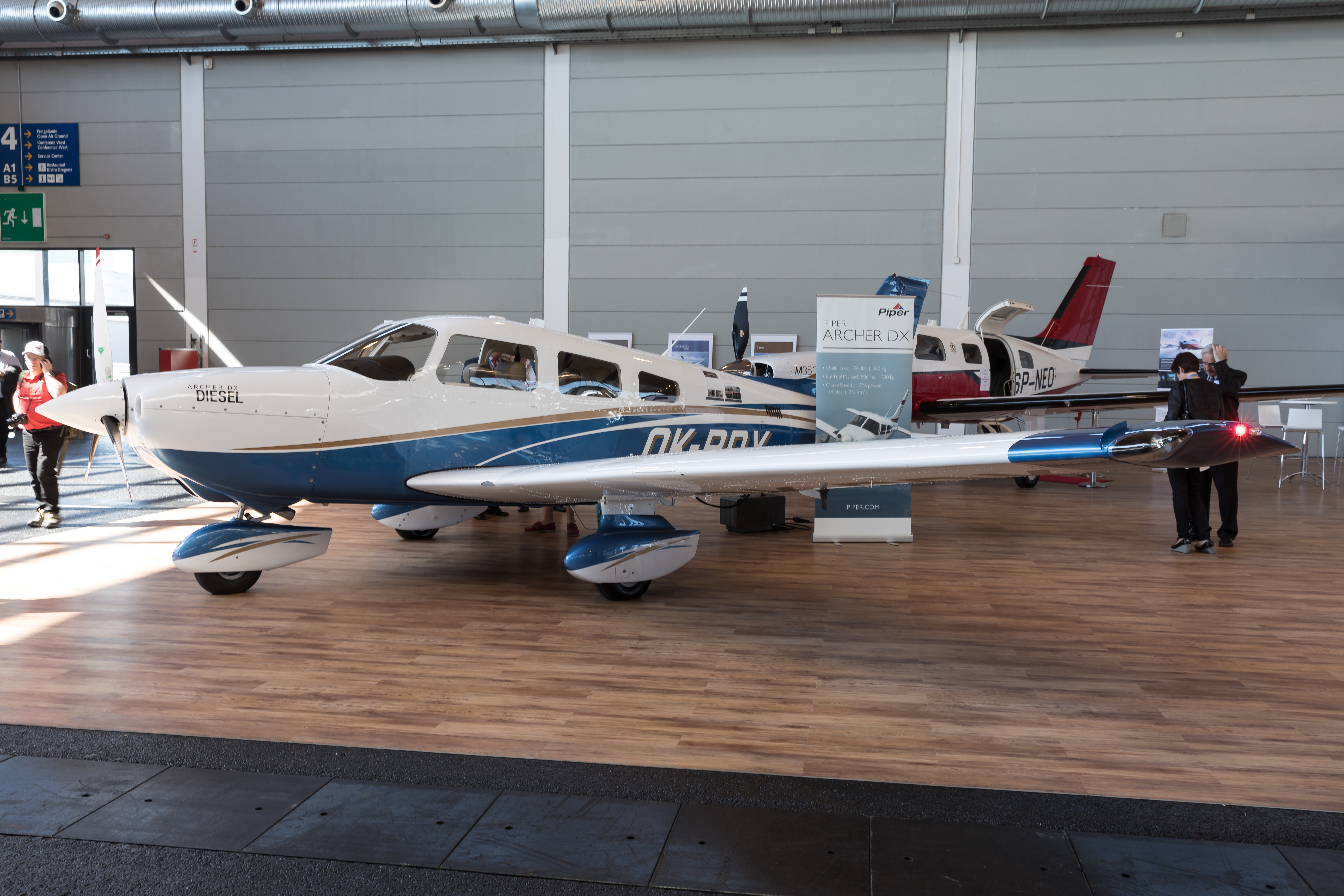 AERO Friedrichshafen 2018